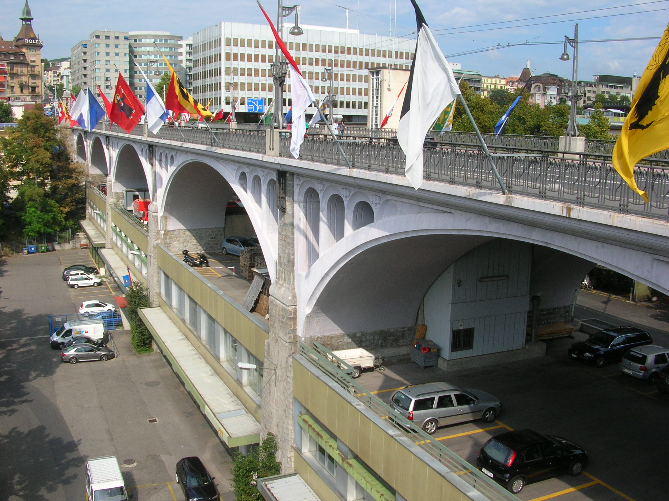 Chauderon Bridge, Lausanne, Switzerland